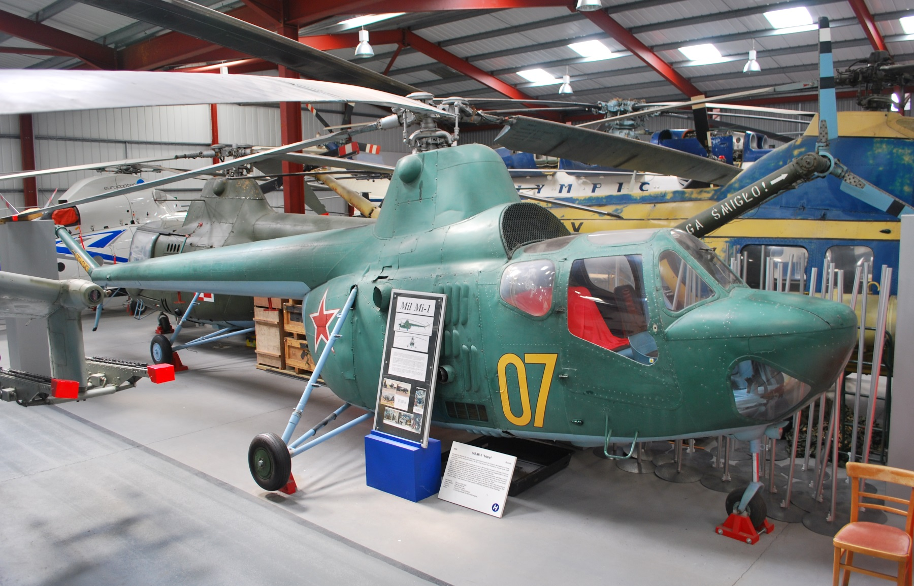 2007 Mil Mi-1 Hare on display